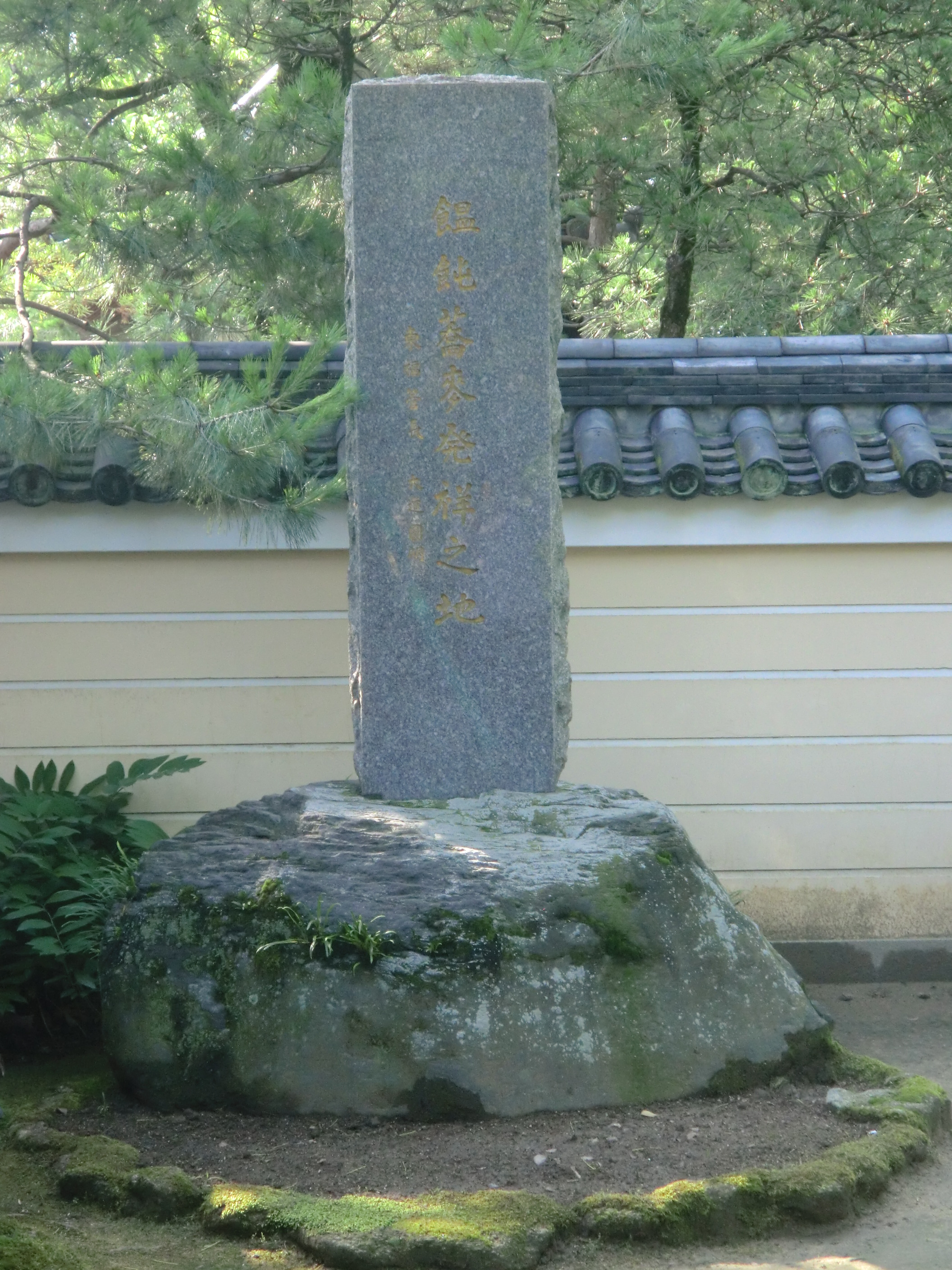 Udon soba introduction stele at Shotenji temple in Fukuoka,Japan.